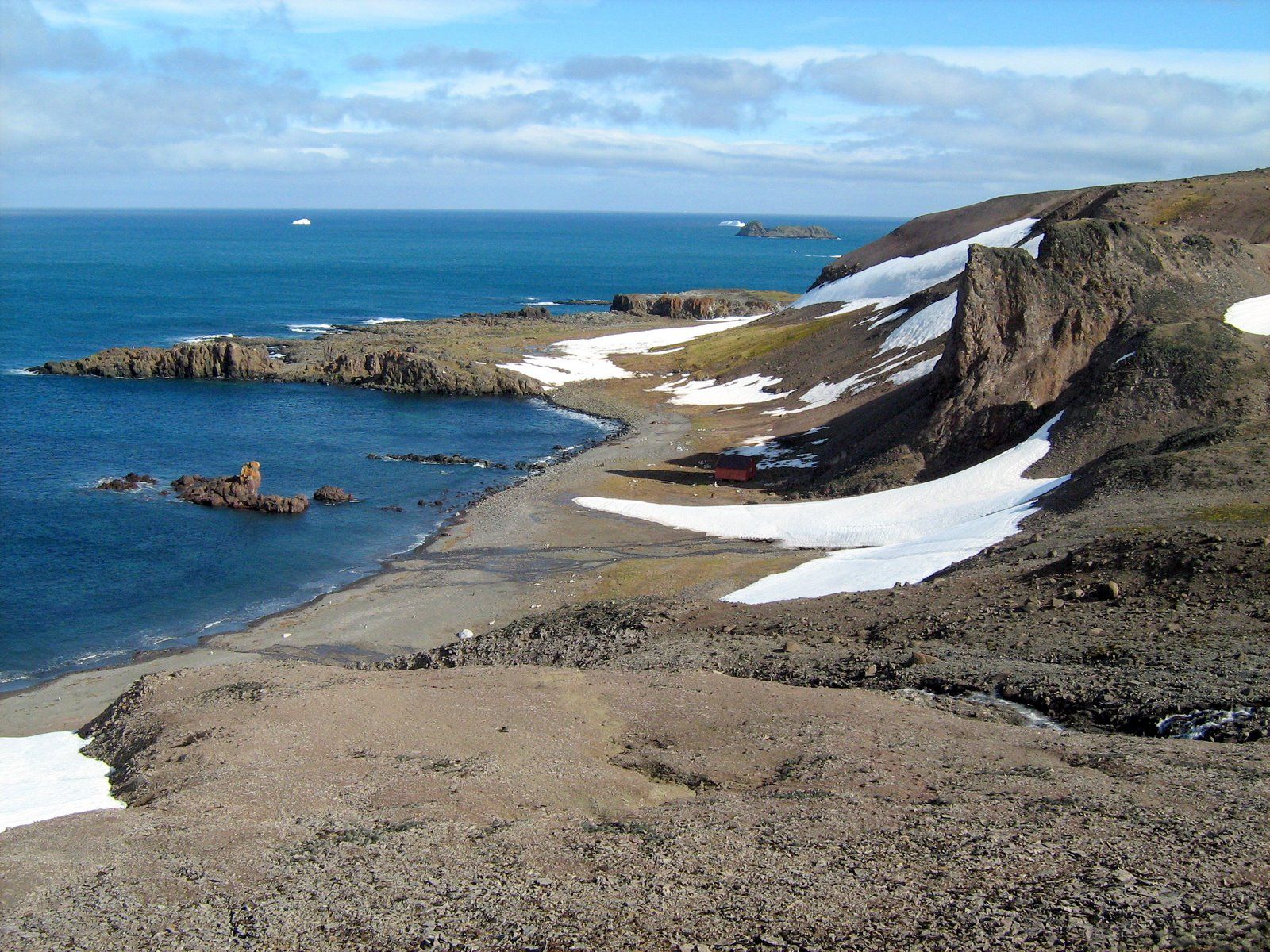 Paradise Cove and Uchatka Point (in the shadow also "Demay"-refugium of the Arctowski Station), King George Island